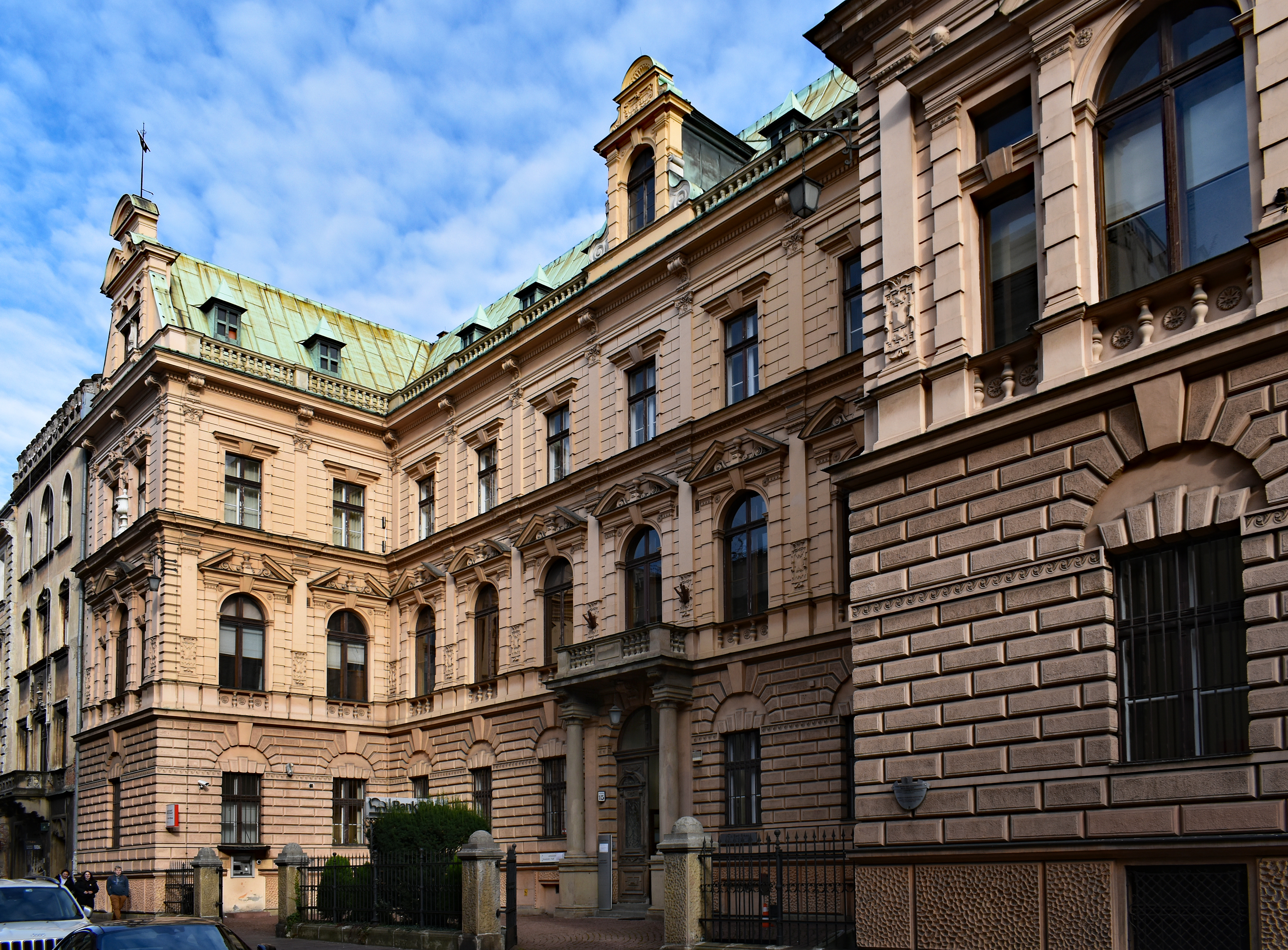 Former KOMK Bank, 15 Szpitalna street, Old Town, Krakow, Poland